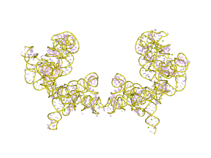 Cartoon representation of the molecular structure of protein registered with 1x8w code.